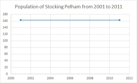 Total population of Stocking Pelham Civil Paish, Hertforshire, as reported by the Census of Population from 2001 to 2011